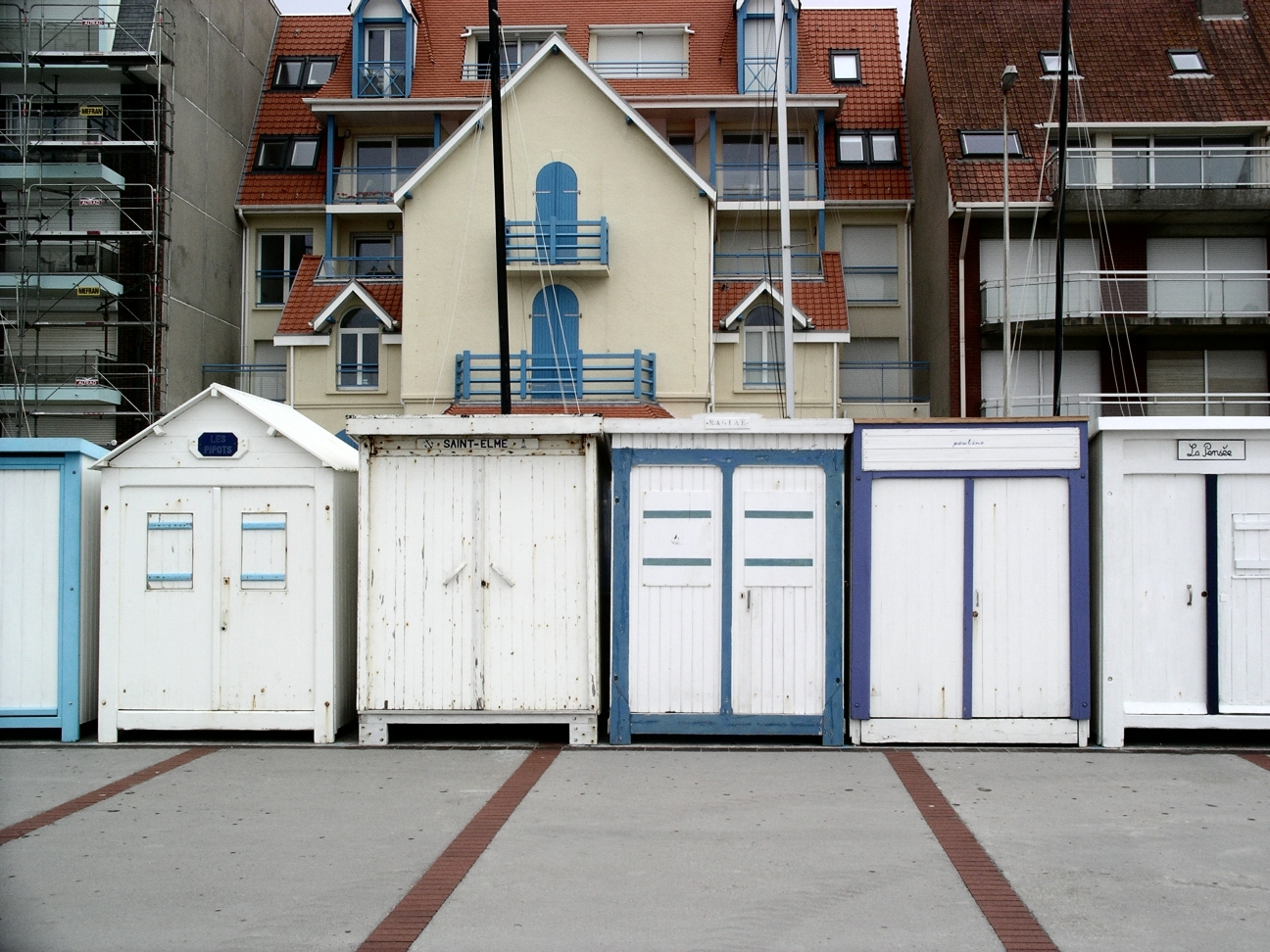 Beach huts in front of modern seaside developments at Wimereux, near Boulogne sur Mer, France